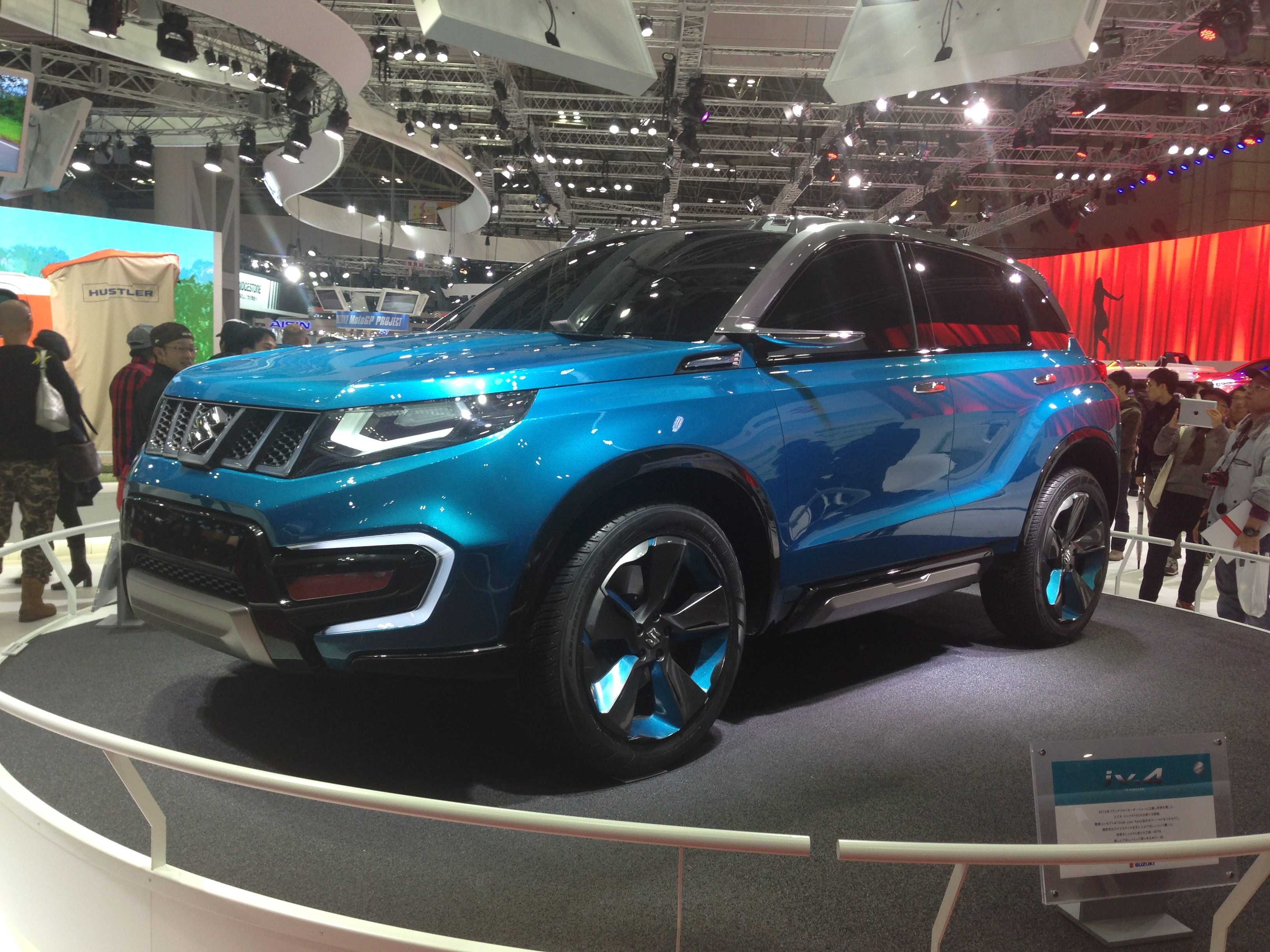 Suzuki iV-4 Concept photographed at the Tokyo Motor Show 2013.